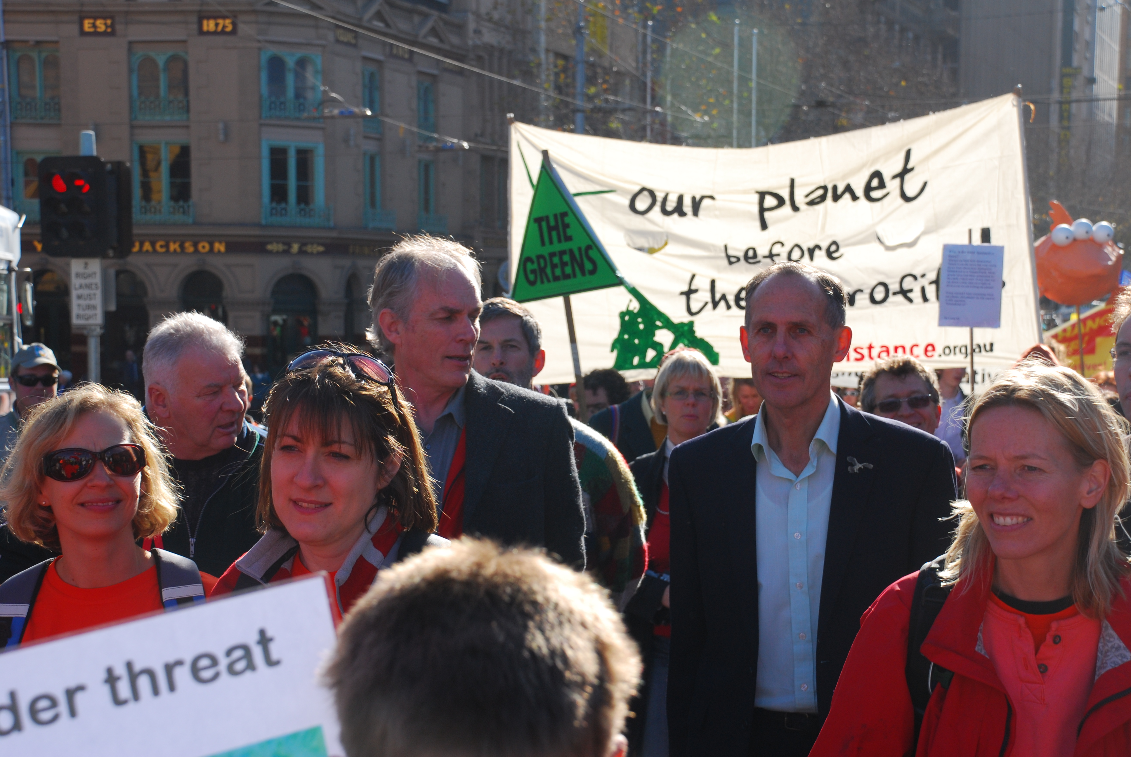 Senator Bob Brown at a climate emergency rally in Melbourne